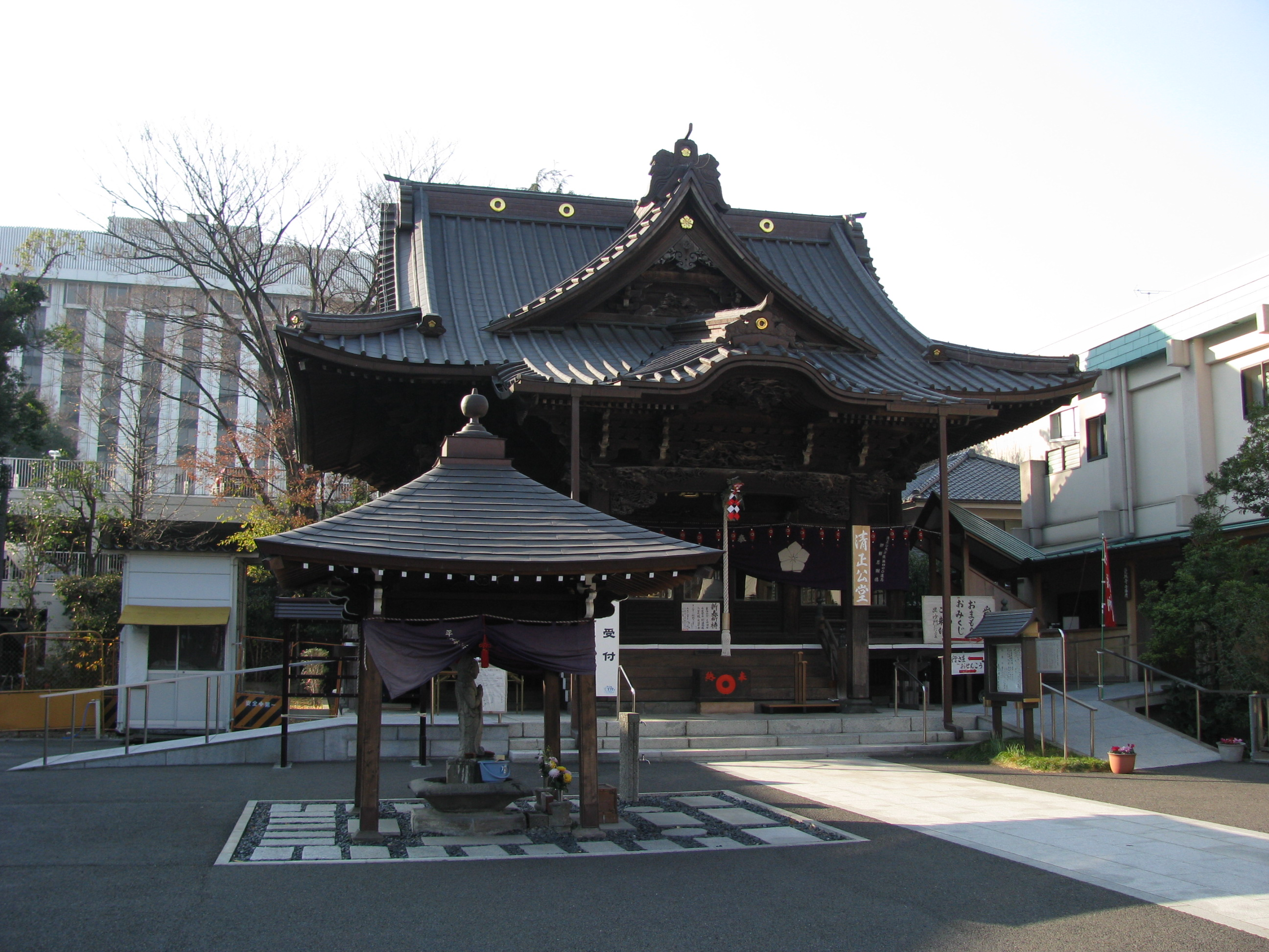 The Kakurin-ji is Japanese Temple. This place is Shirokanedai in Minato, Tokyo, Japan.